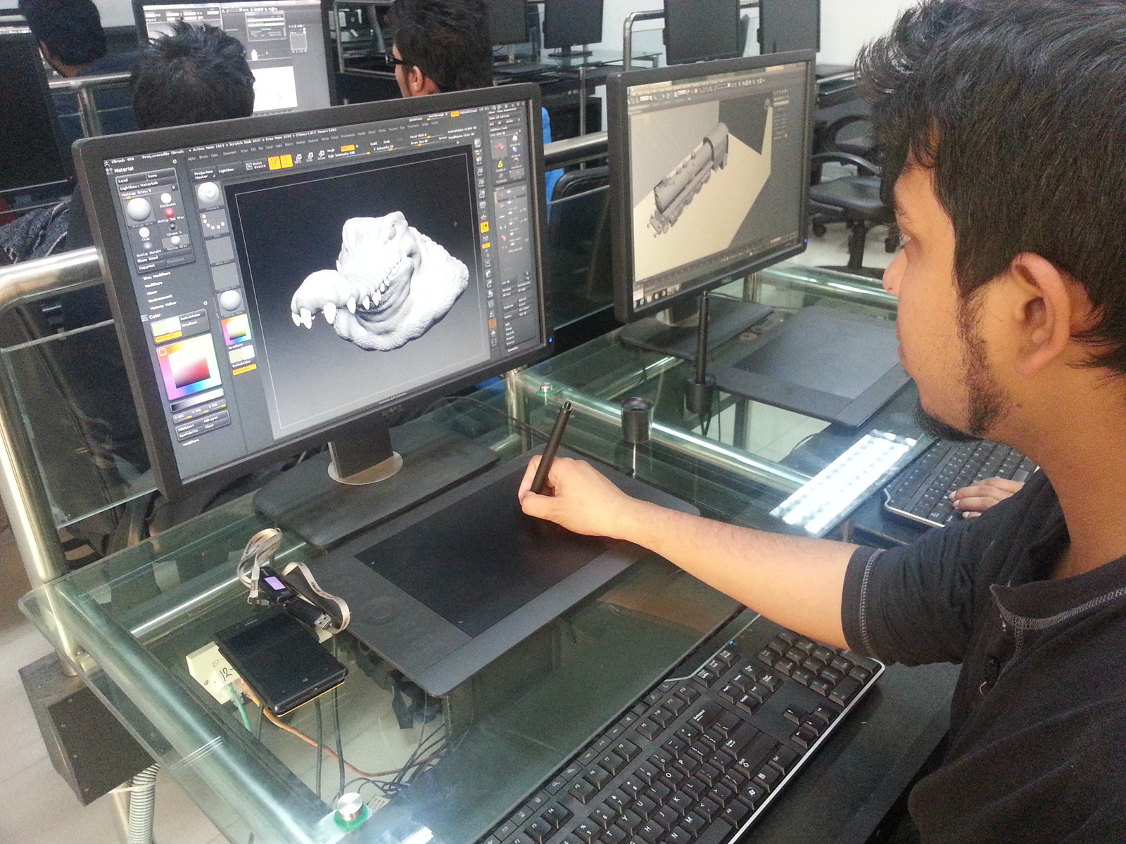 Students are working in the Animation lab.